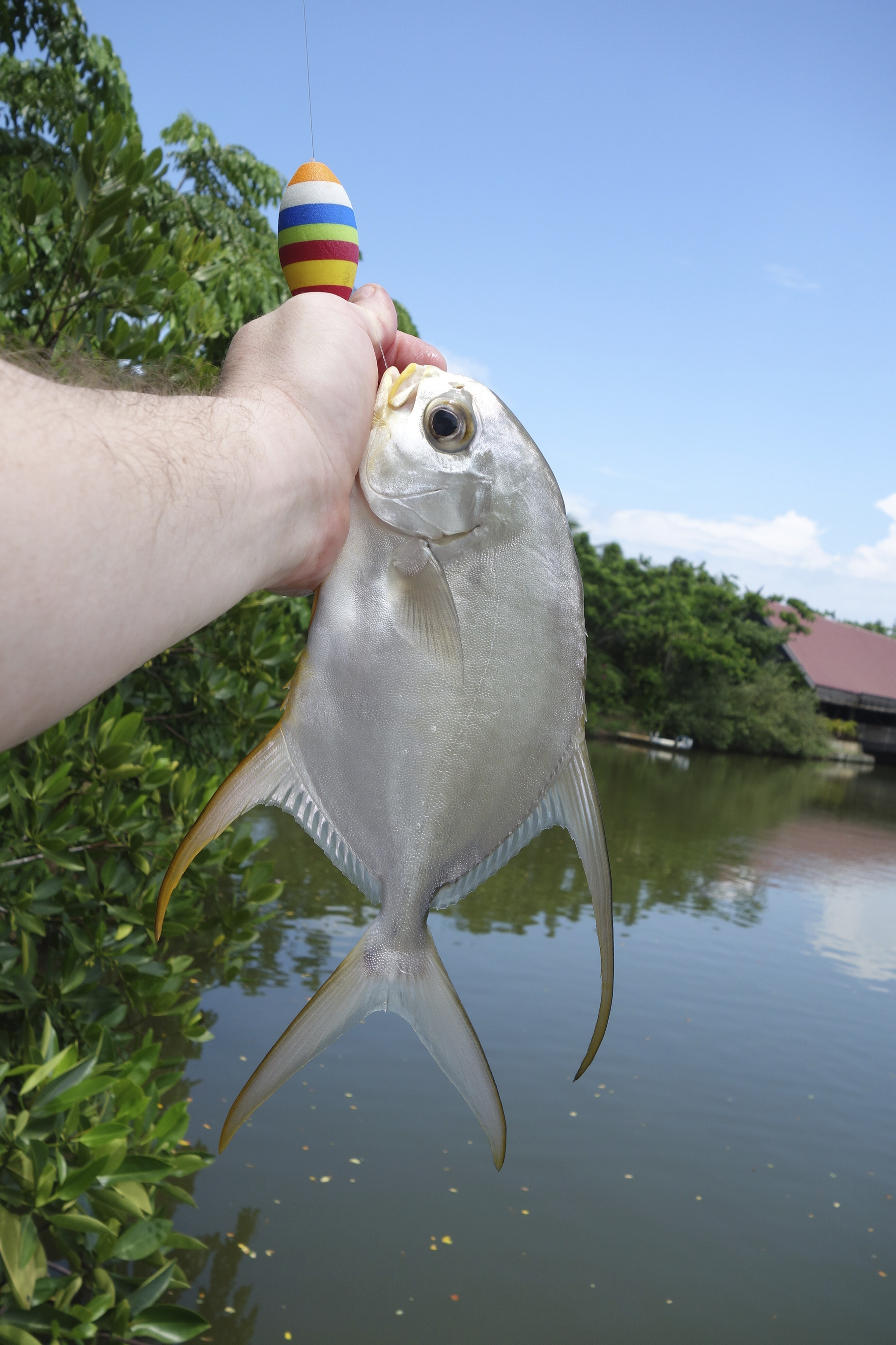 A Trachinotus blochii caught in a pond near Jakarta